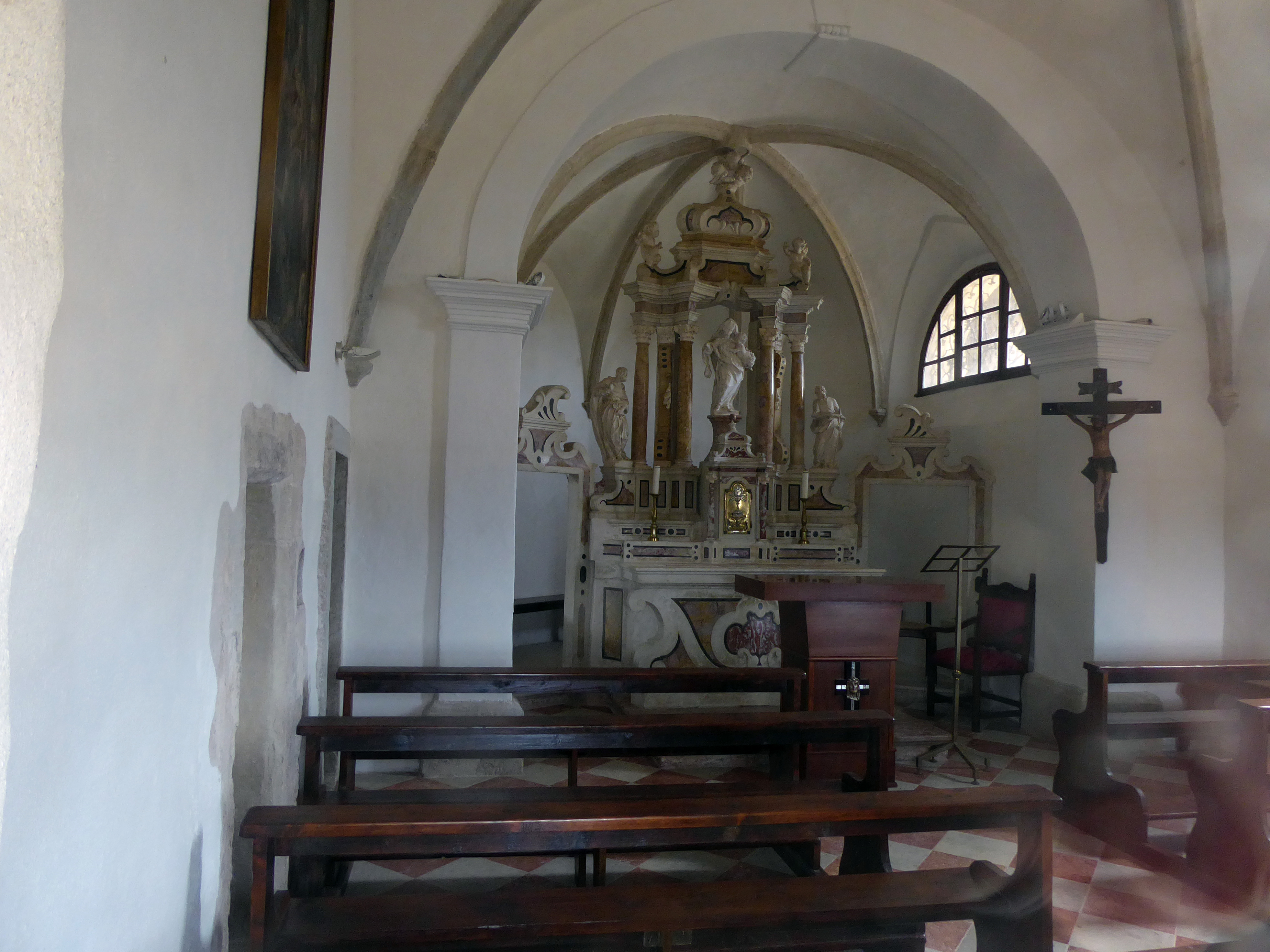 Vigo Meano (Trento, Italy) - Saints Peter and Paul church - Interior